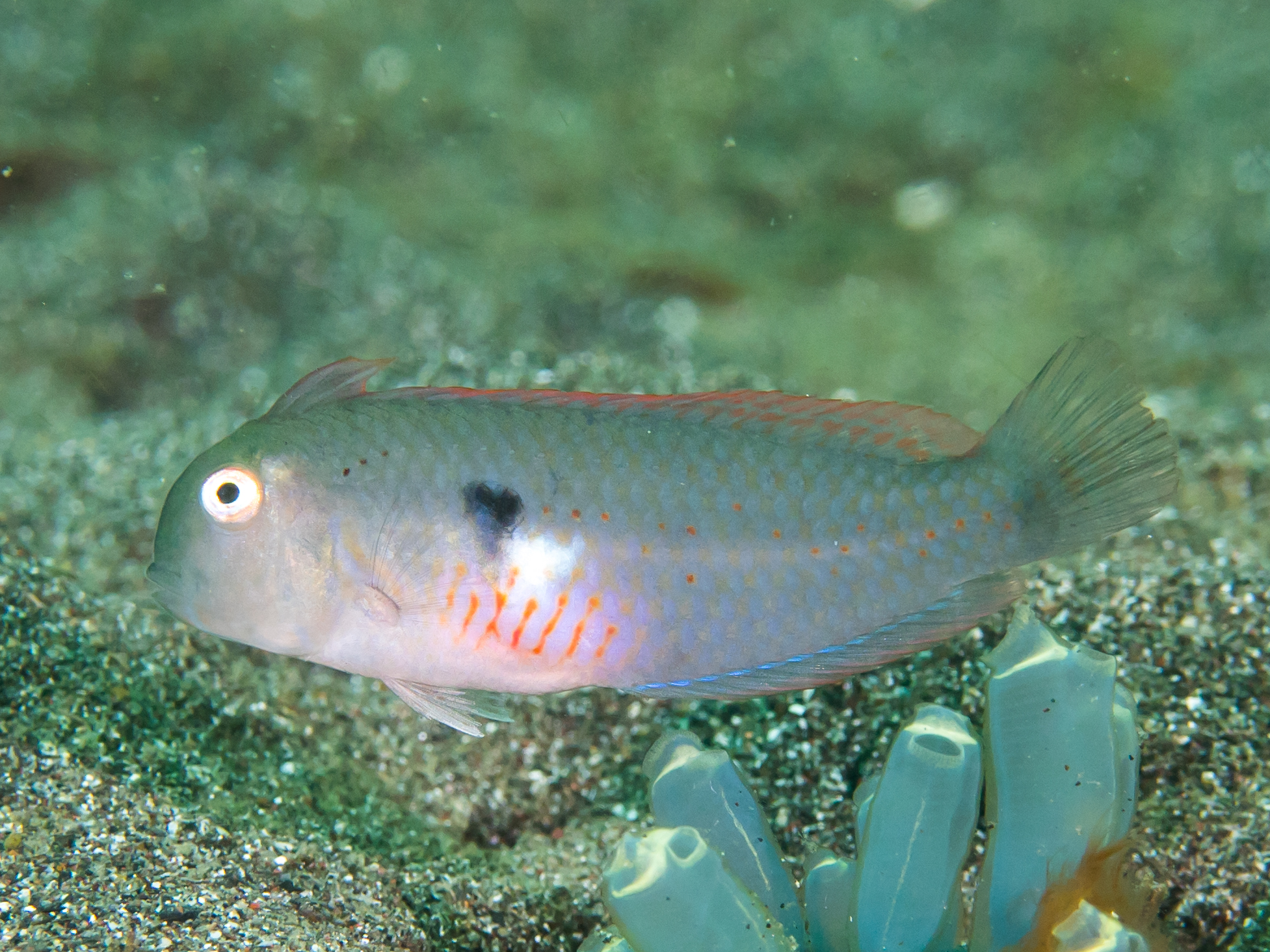 Lembeh, Indonesia - Fivefinger razorfish female (Iniistius pentadactylus)